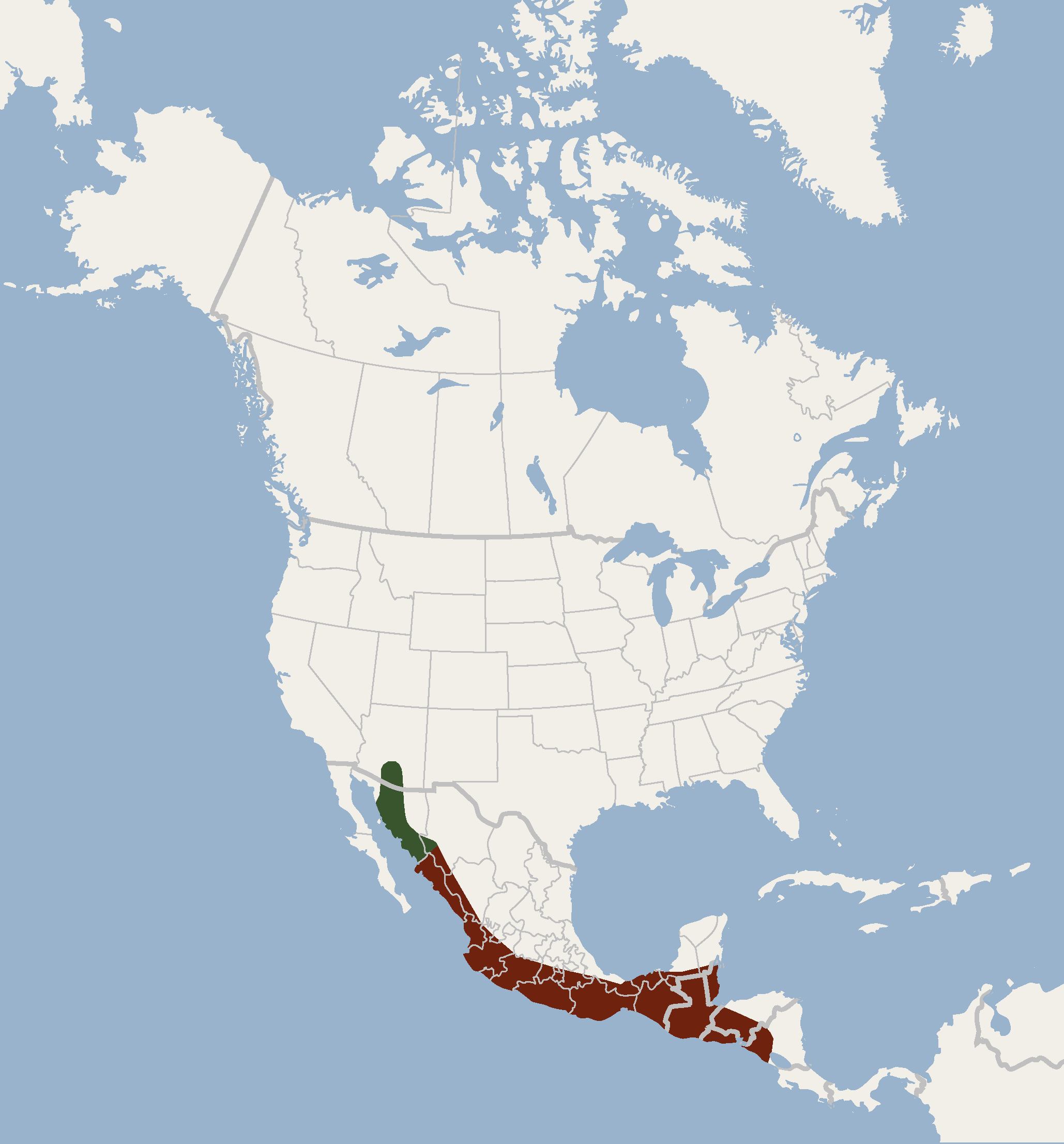 According to Kays & Wilson, 2009